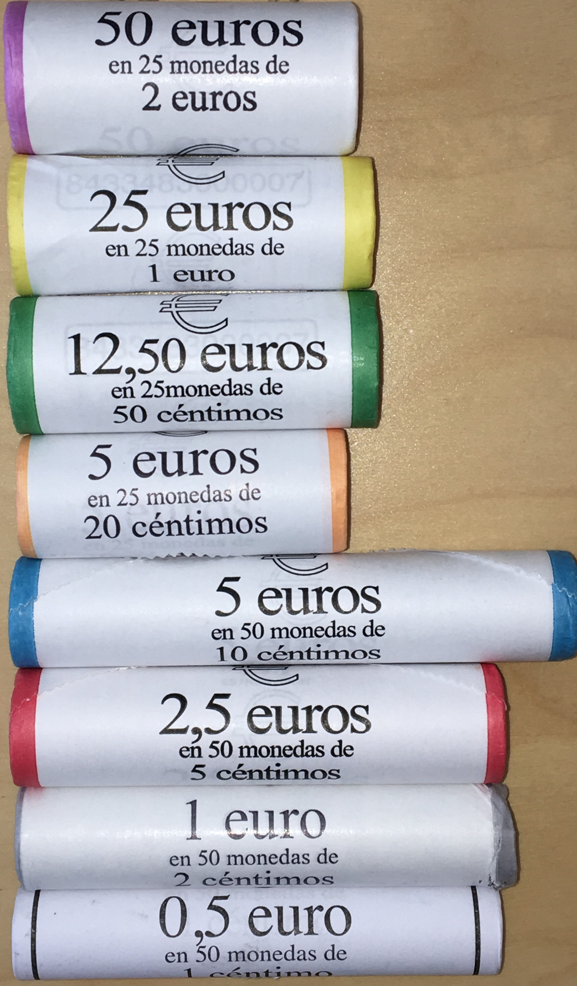 Euro coin rolls as packed in Spain